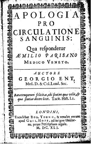 Cover Page of George Ent's Apologia